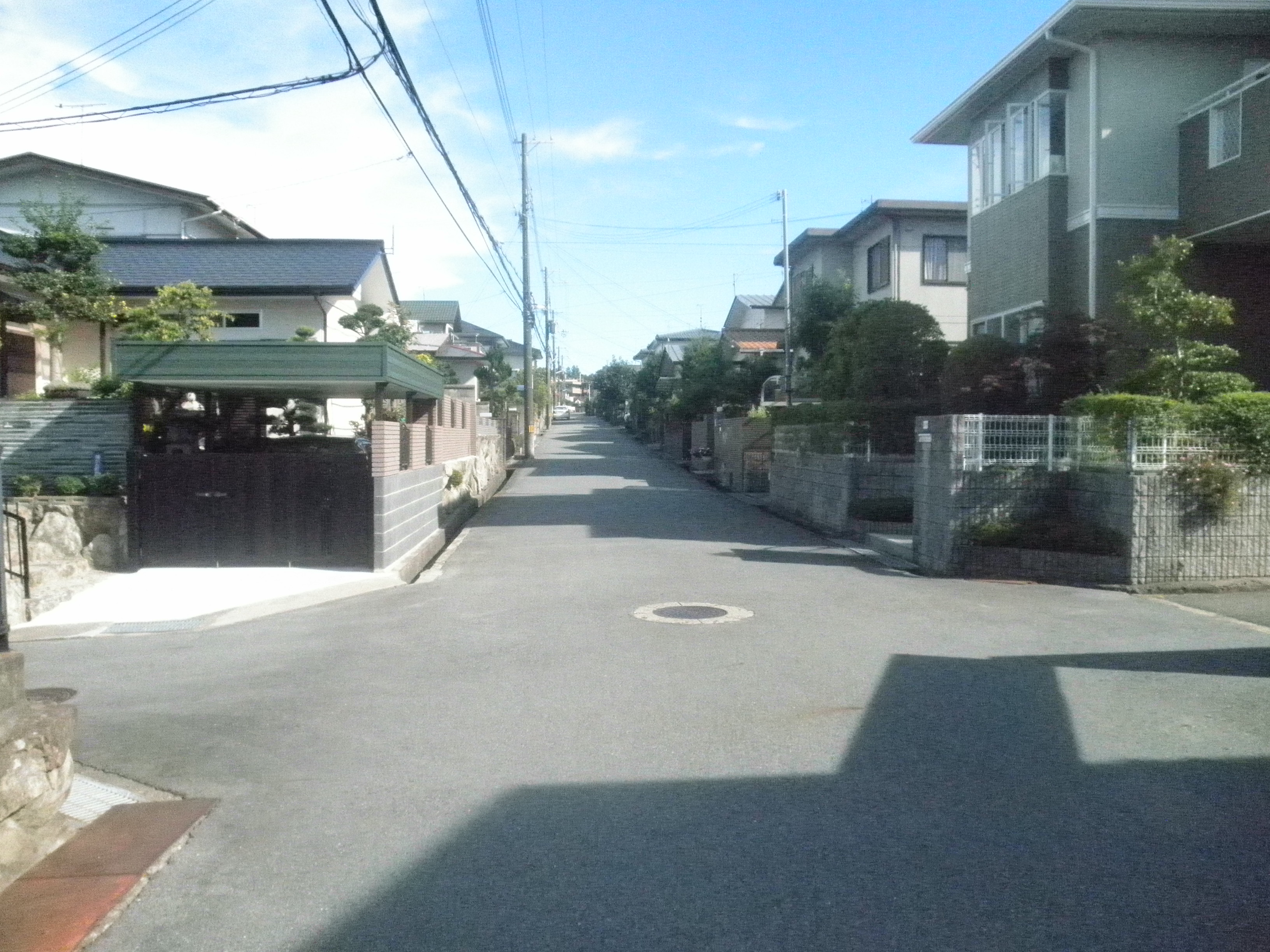 Midorigaokatown-nishi1 Mikicity Hyogopref.JPG